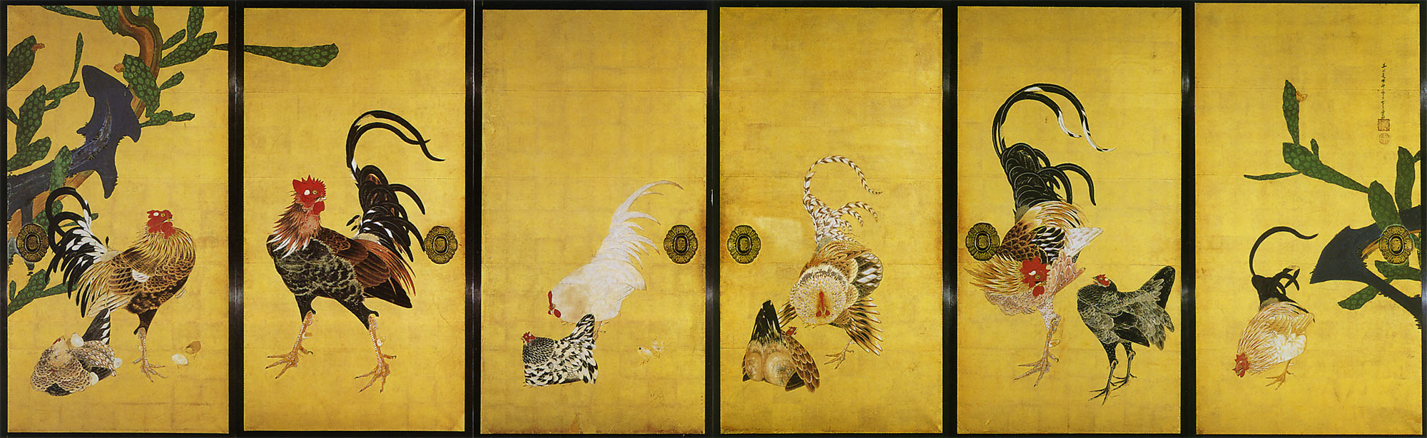 Painting on sliding doors